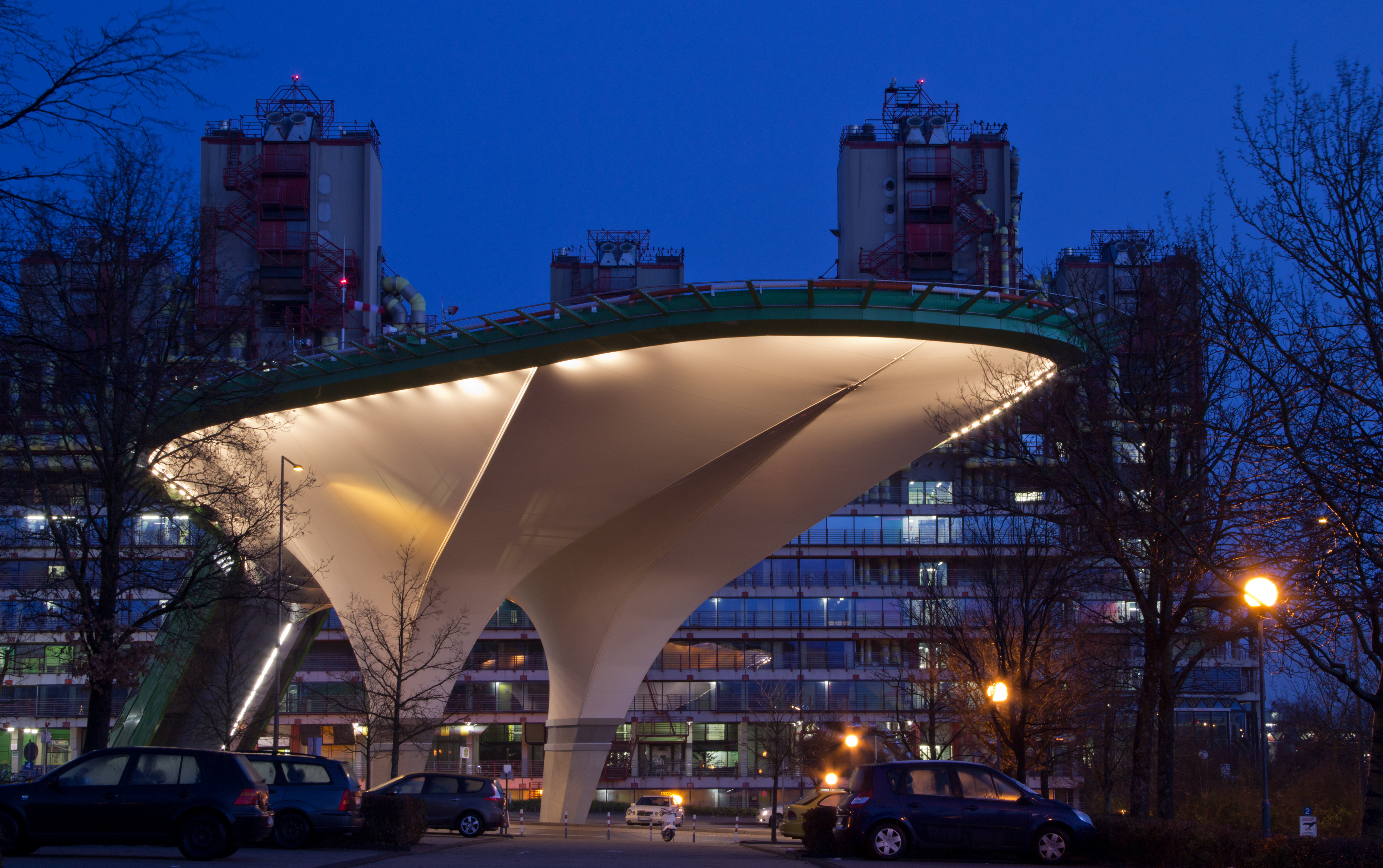 The new heliport of the university hospital of aachen. Photo was taken at the blue hour (before sunrise).